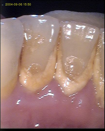 Dental calculus